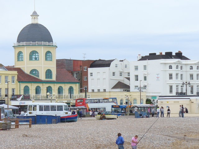 Dome Cinema on Marine Parade